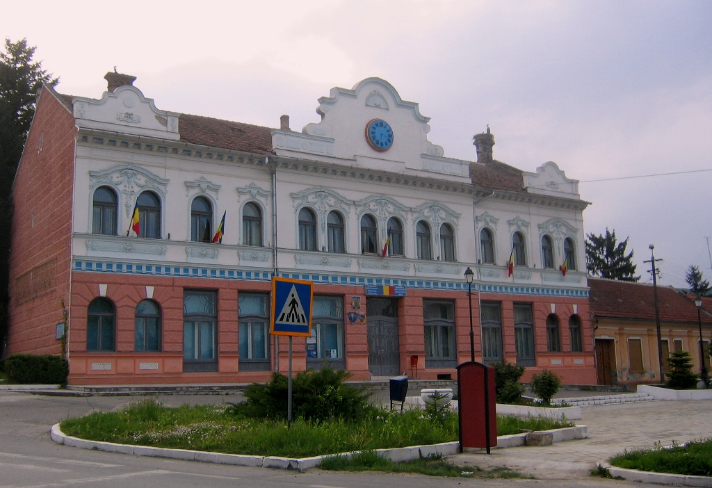 Bocşa Town Hall in Caras-Severin County, Romania